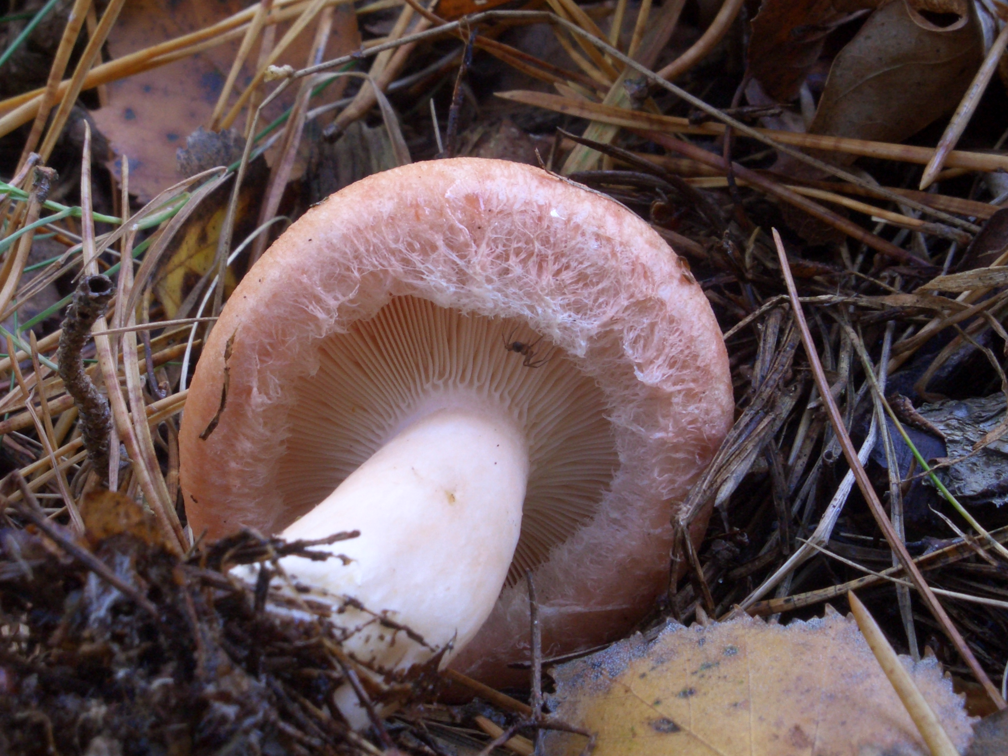 Young Lactarius torminosus; Woolly Milk-cap, showing forked gils near stem.